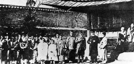 Yun chiho & Lucius Foote